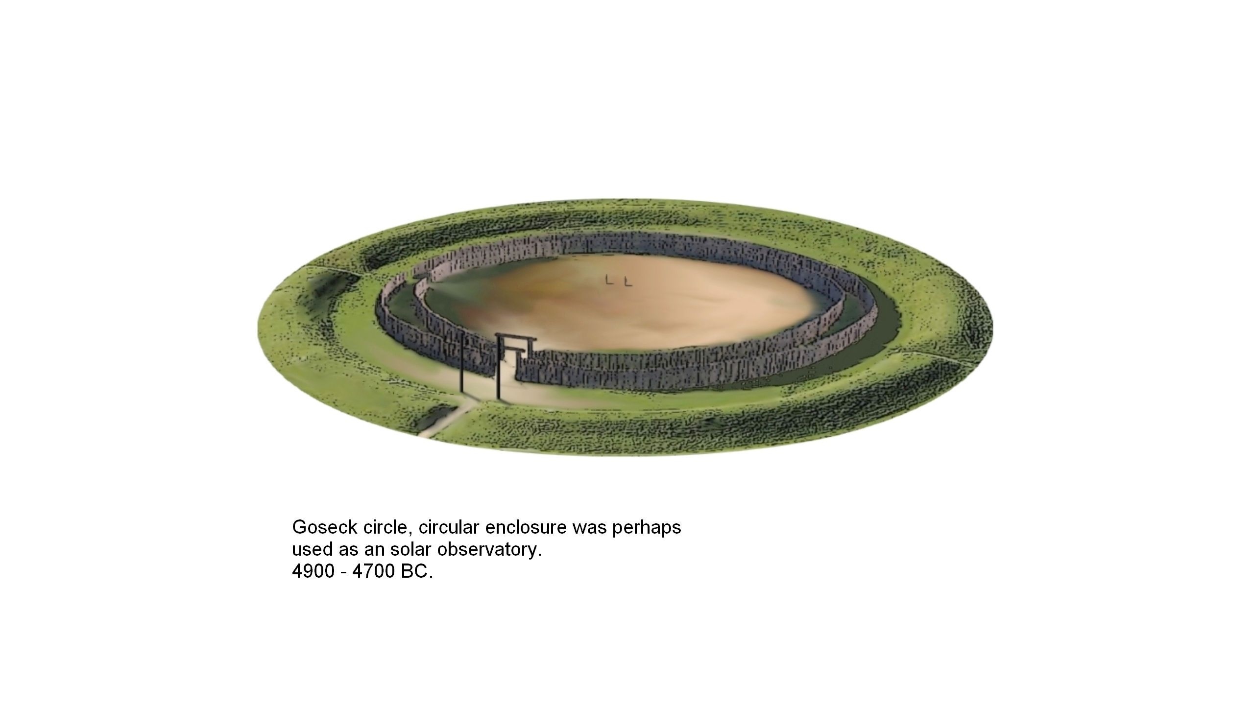 Goseck circle, Germany 4900 - 4700 BC. From the book OLD EUROPE - FIRST CIVILIZATION 7000-3000 BC AF KENNY ARNE LANG ANTONSEN, JIMMY JOHN ANTONSEN